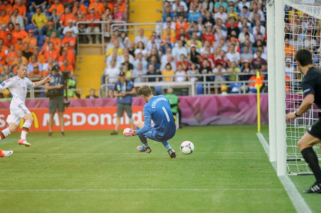 UEFA Euro 2012 match between Netherlands and Denmark that took place in Kharkiv. Final result was 0:1 (Krohn-Delhi)